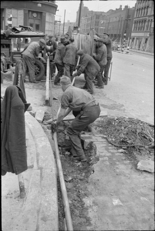 The Telephone Service Carries On, London, January 1942 At the scene of the 'incident', telephone repair crews unroll new cables on a bomb damaged London street in order to breach the gap in telephone supply caused by an air raid.